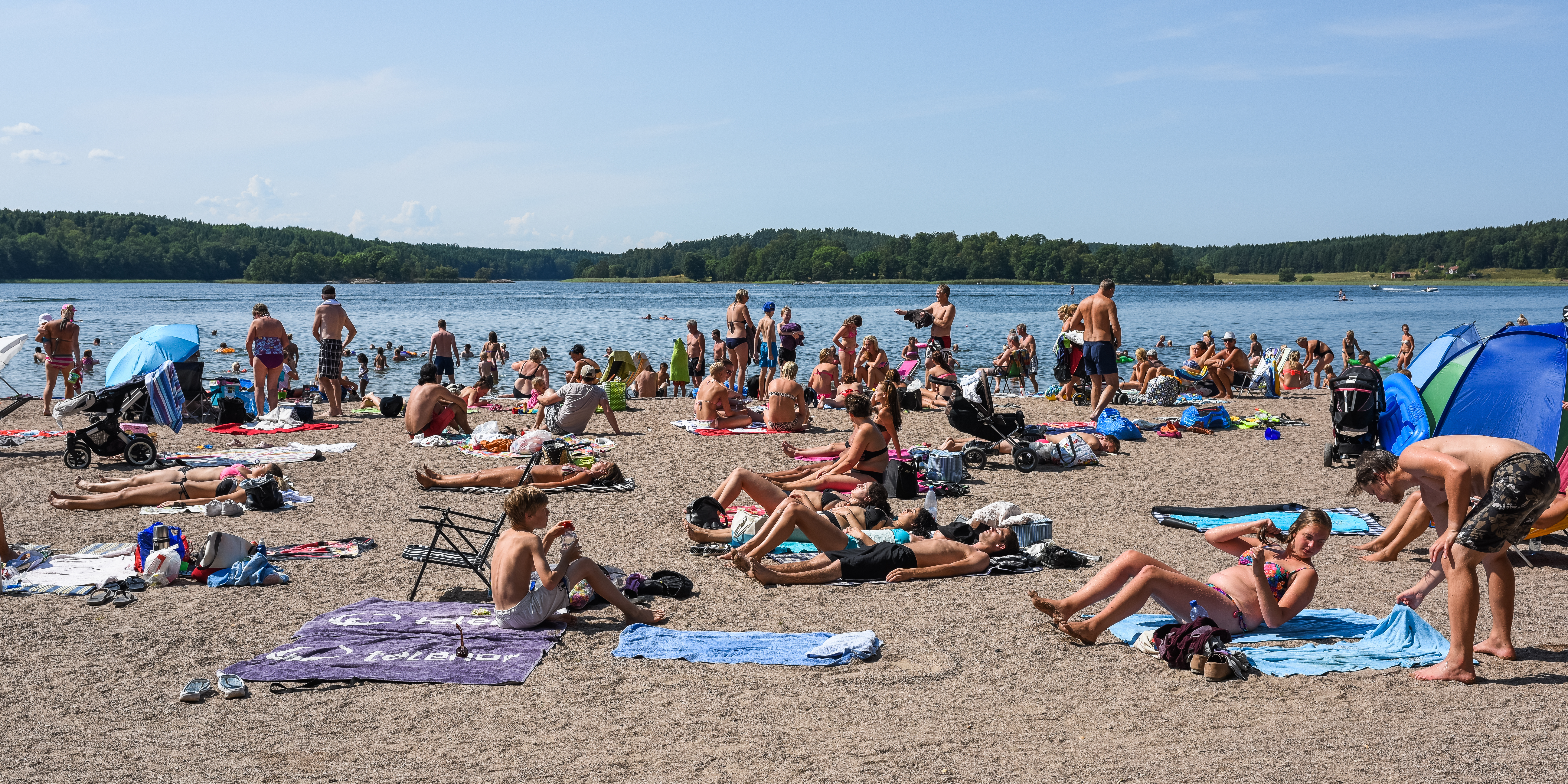 Vaxholm shores July 2014